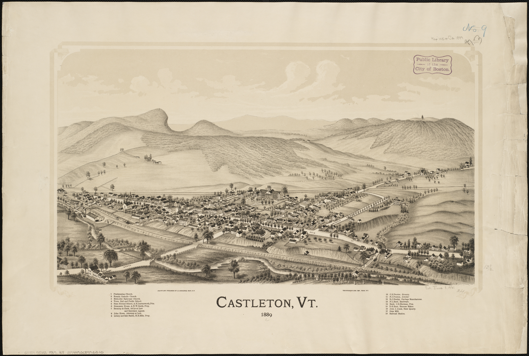 Zoom into this map at . Author: Burleigh, L. R. Publisher: L.R. Burleigh Date: [1889] Location: Castleton (Vt.) Scale: Not drawn to scale. Call Number: G3754.C37A3 1889.B8